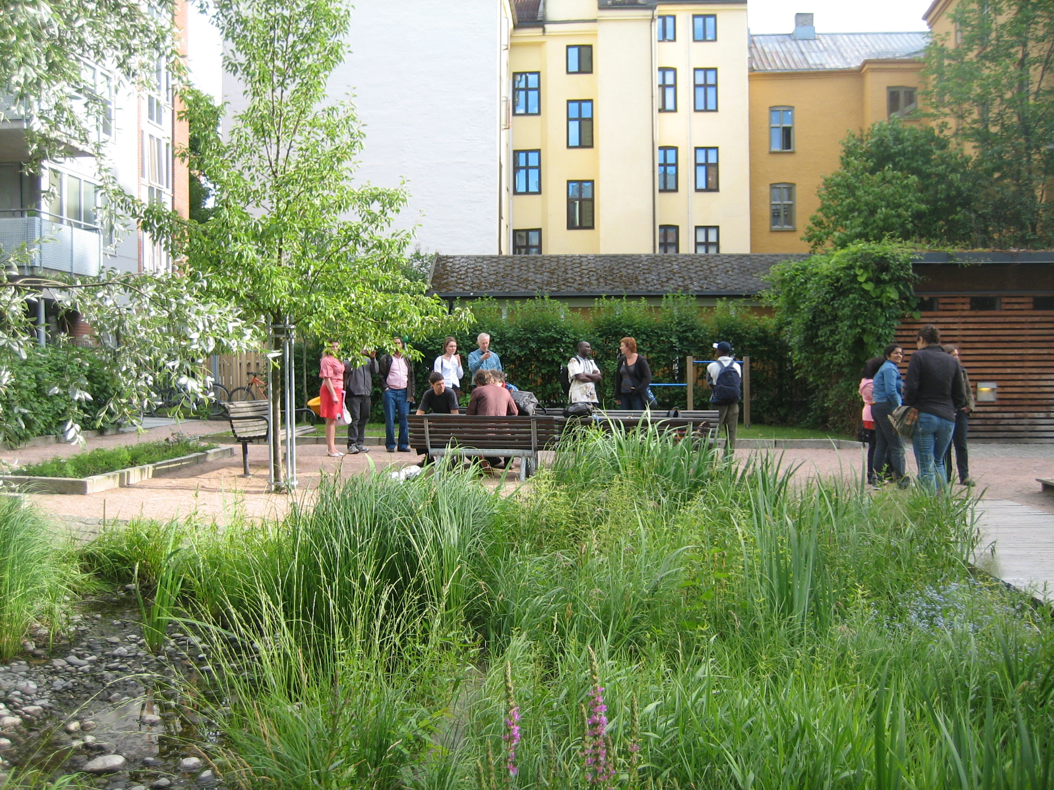 Norway - Urban Decentralized Greywater Treatment in Oslo